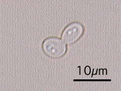 microscopic image of Candida albicans ATCC 10231 on budding. magnification:600.